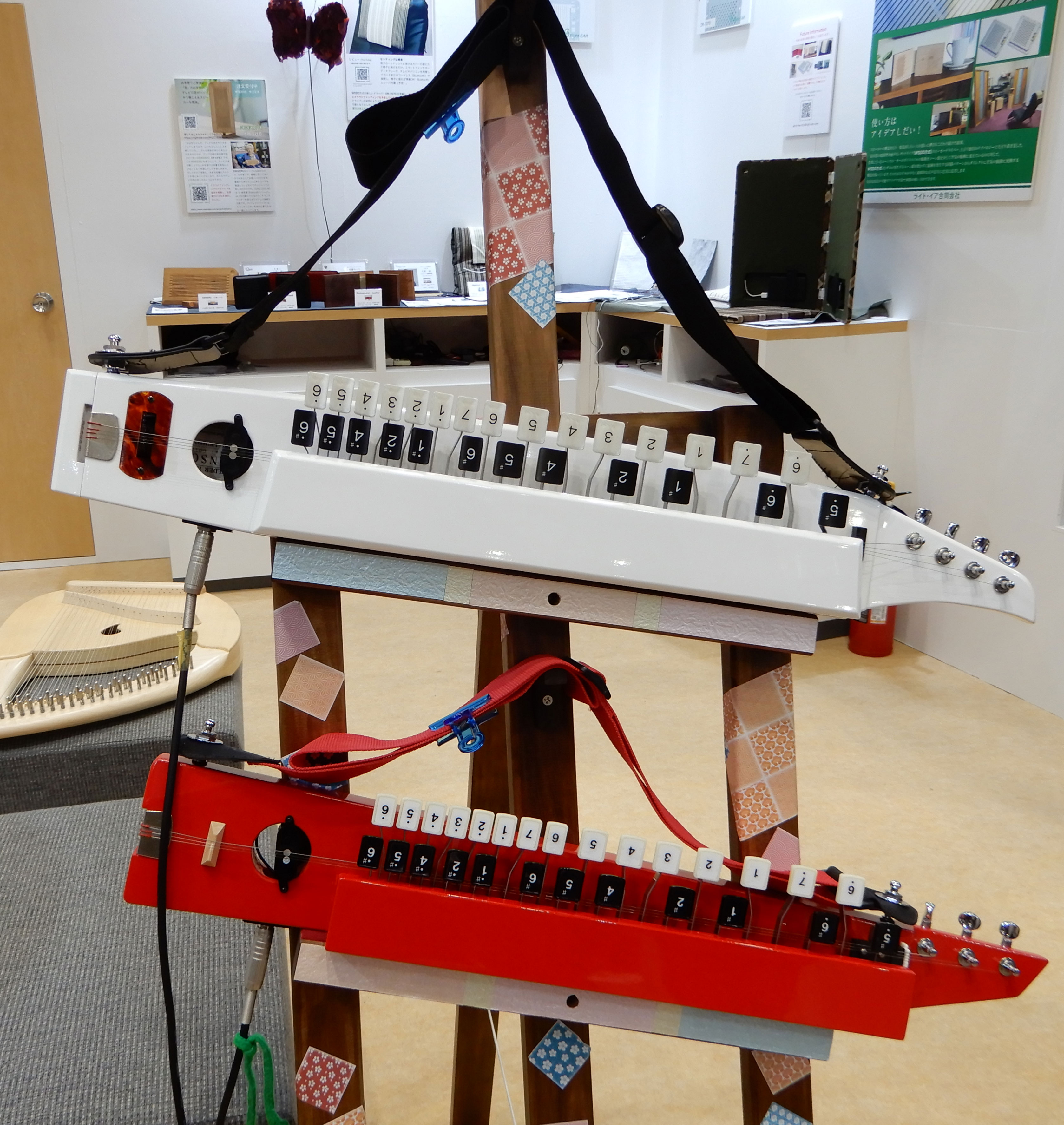 A new type of Taishōgoto, SHOULDER-HARP, made by SANSO-Gakki. Taken at Musical Instruments Fair Japan 2018. 中文（中国大陆）: 三创乐器公司新式大正琴 SHOULDER-HARP 拍照地点 2018年日本东京国际乐器展